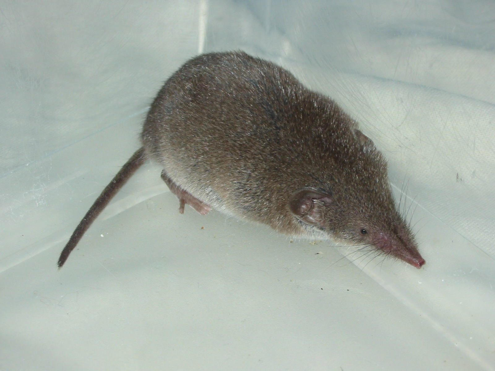 Crocidura russula